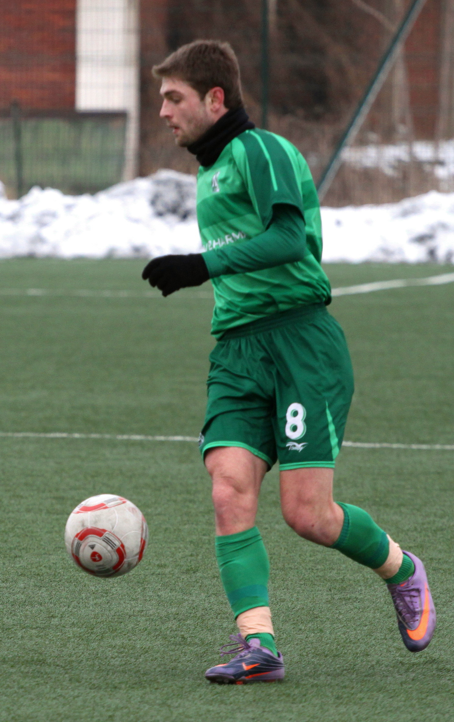 Dimo Atanasov (Bulgarian: Димо Атанасов) (born 24 October 1985) is a Bulgarian footballer currently playing for Ludogorets Razgrad as a left midfielder.